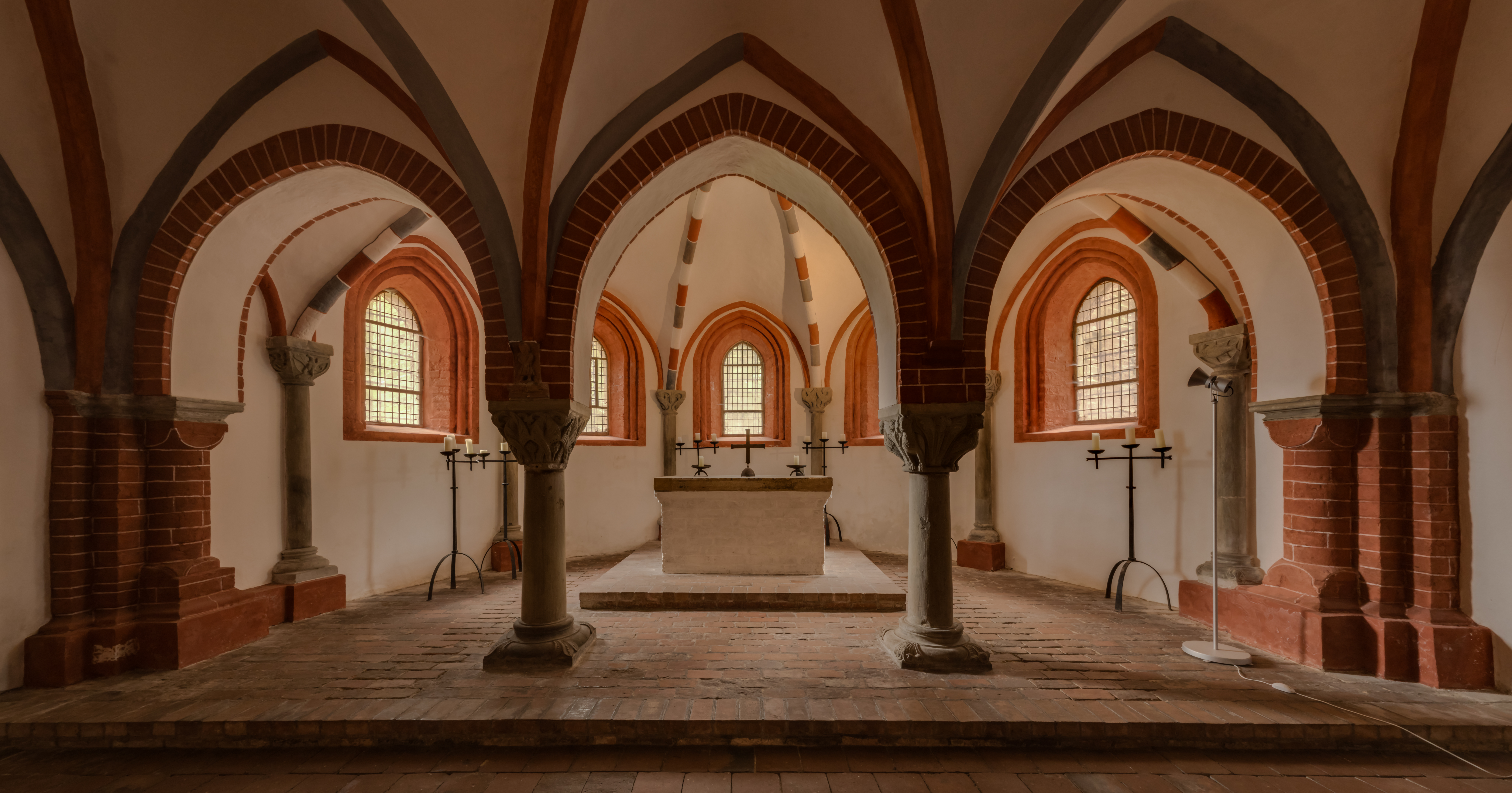 Crypt under the choir in the east nave of the Brandenburg Cathedral St. Peter and Paul, Brandenburg an der Havel, Germany